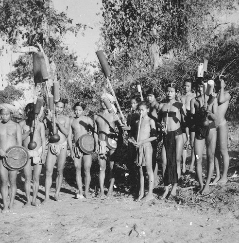 Mro people holding traditional pipes. near Chimbuk peak, Bandarban District, Chittagong.